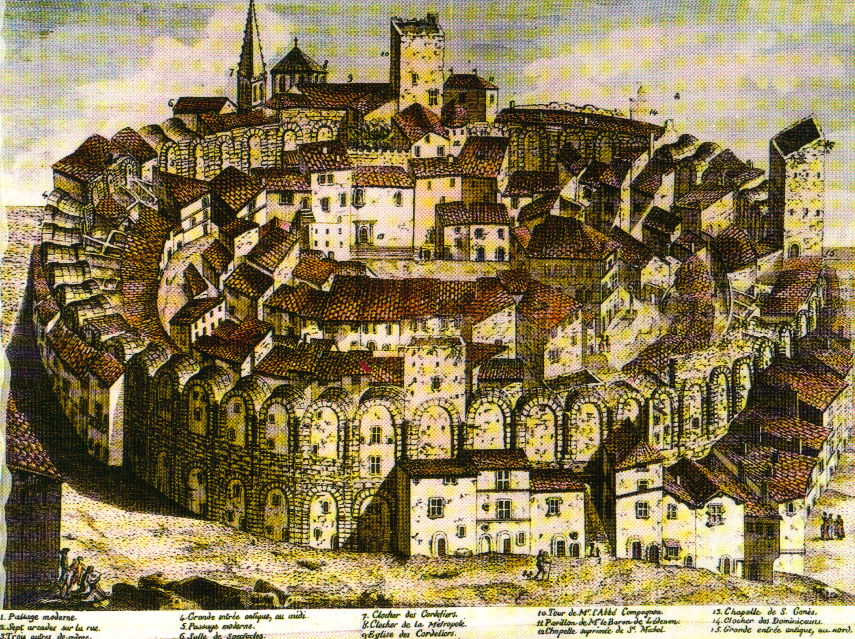 Arles amphitheater before houses were cleared (starting 1825)